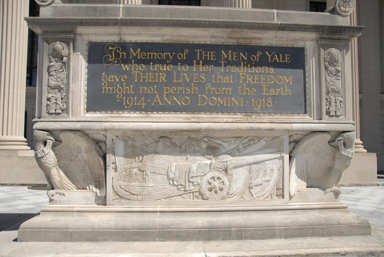 Yale Cenotaph (World War I Memorial)